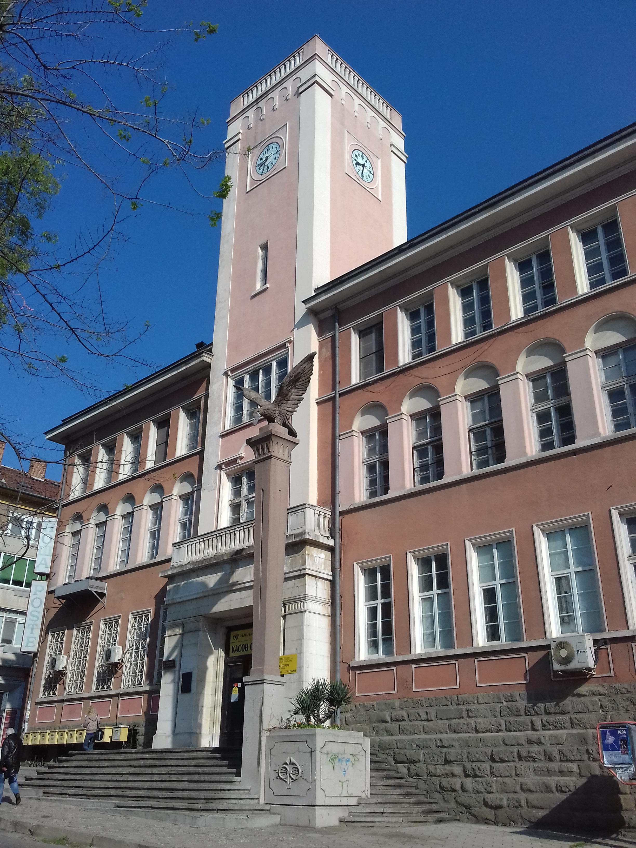 Central Post Office in Stara Zagora, Bulgaria